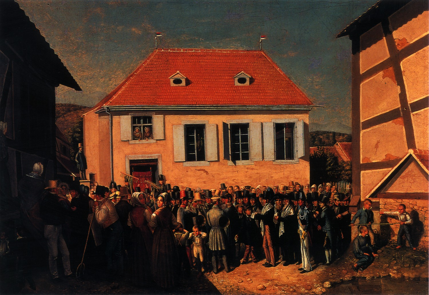 Dedication of a Synagogue in Alsace. 1820. Oil on canvas. 24 1/2 x 35 1/2 in. (62.2 x 90.2 cm). The Jewish Museum, New York.